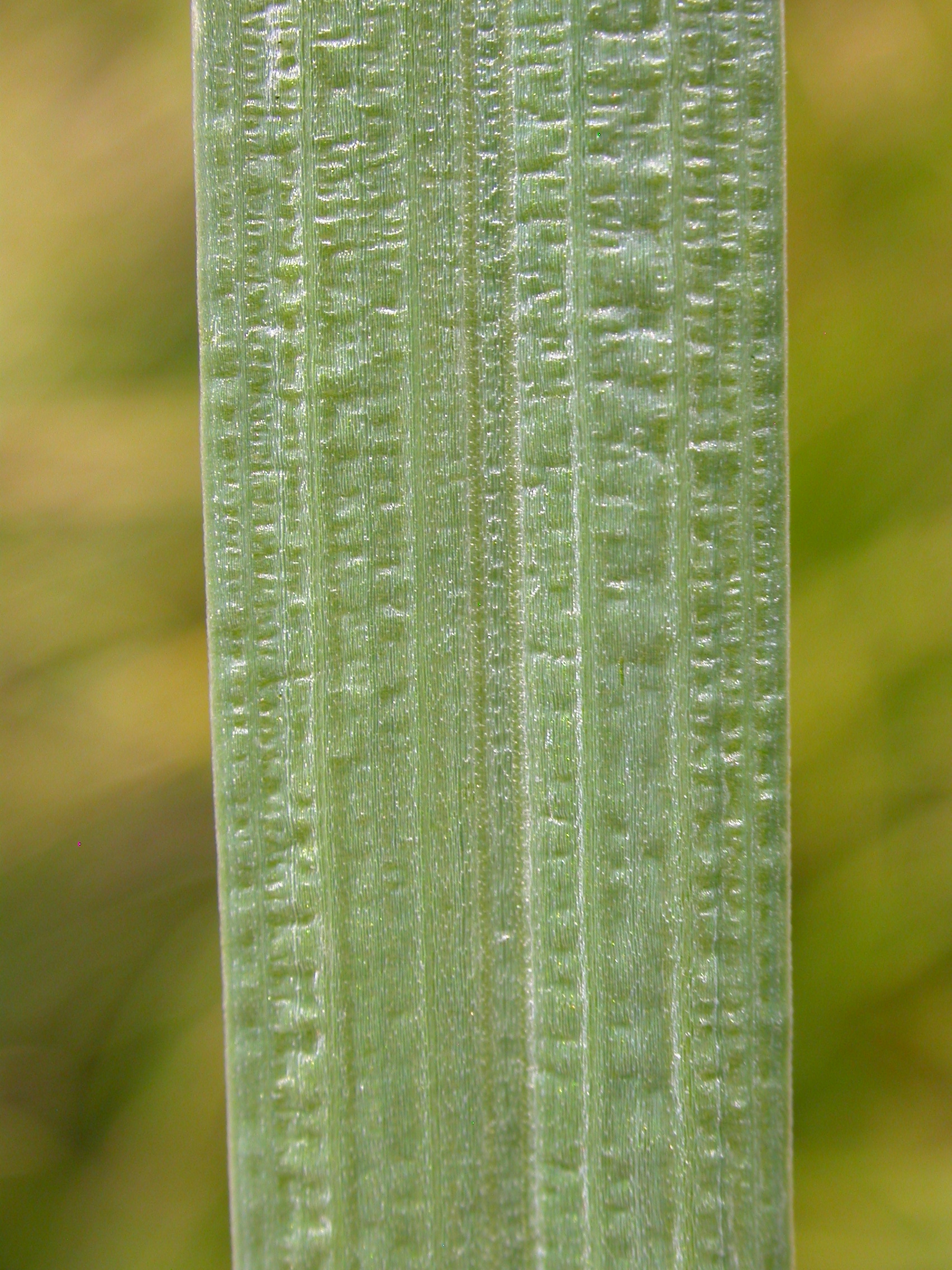 The leaf blades often have characteristic transverse folds or wrinkles.